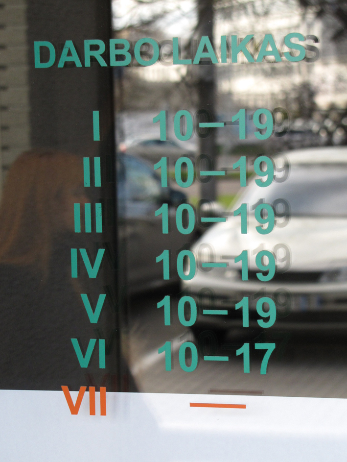 Roman numerals notes day of the week (Vilnius, Lithuania)